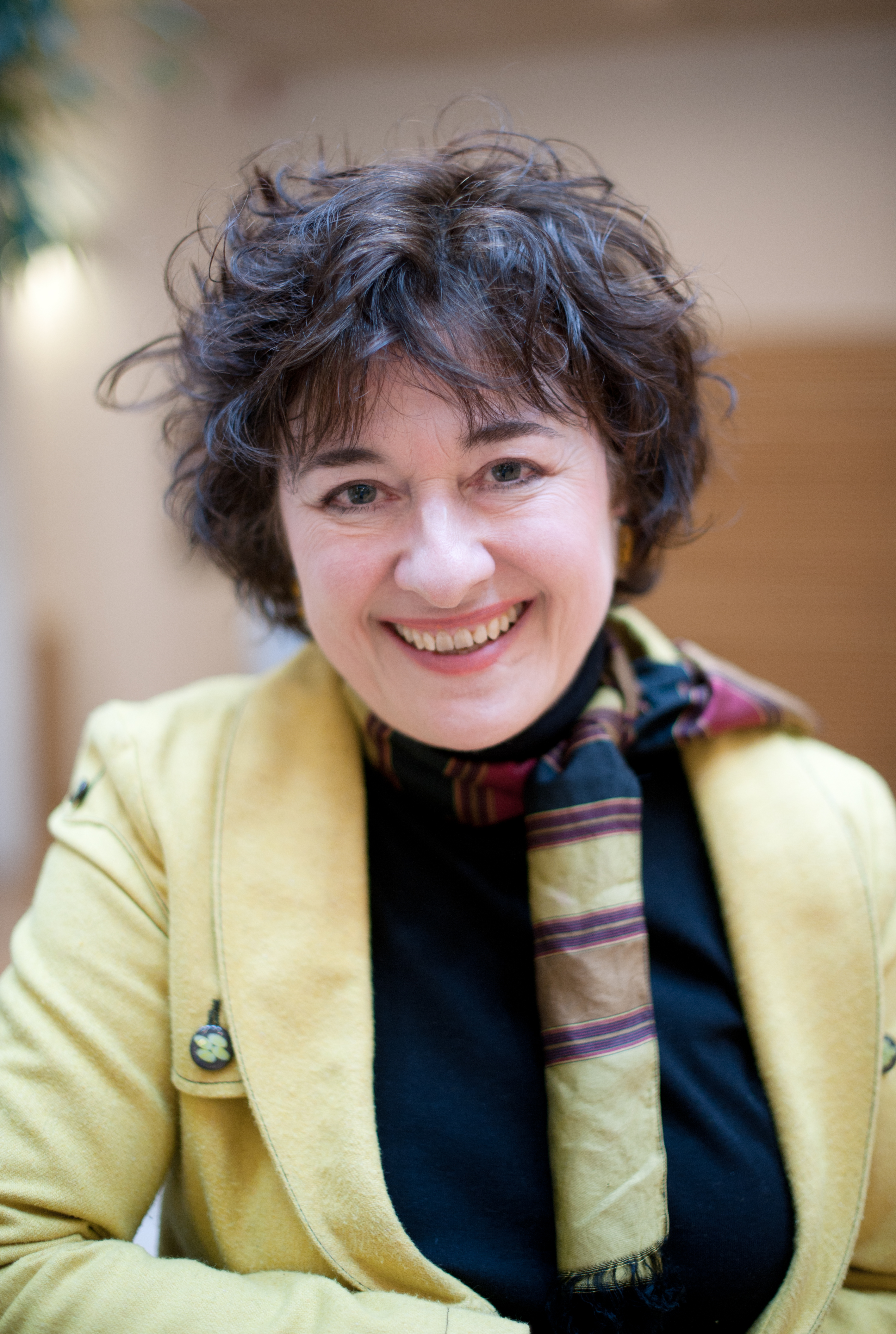 Tidigare vinnare av Nordiska rådets litteraturpris Pia Tafdrup Keywords: Literature Prize